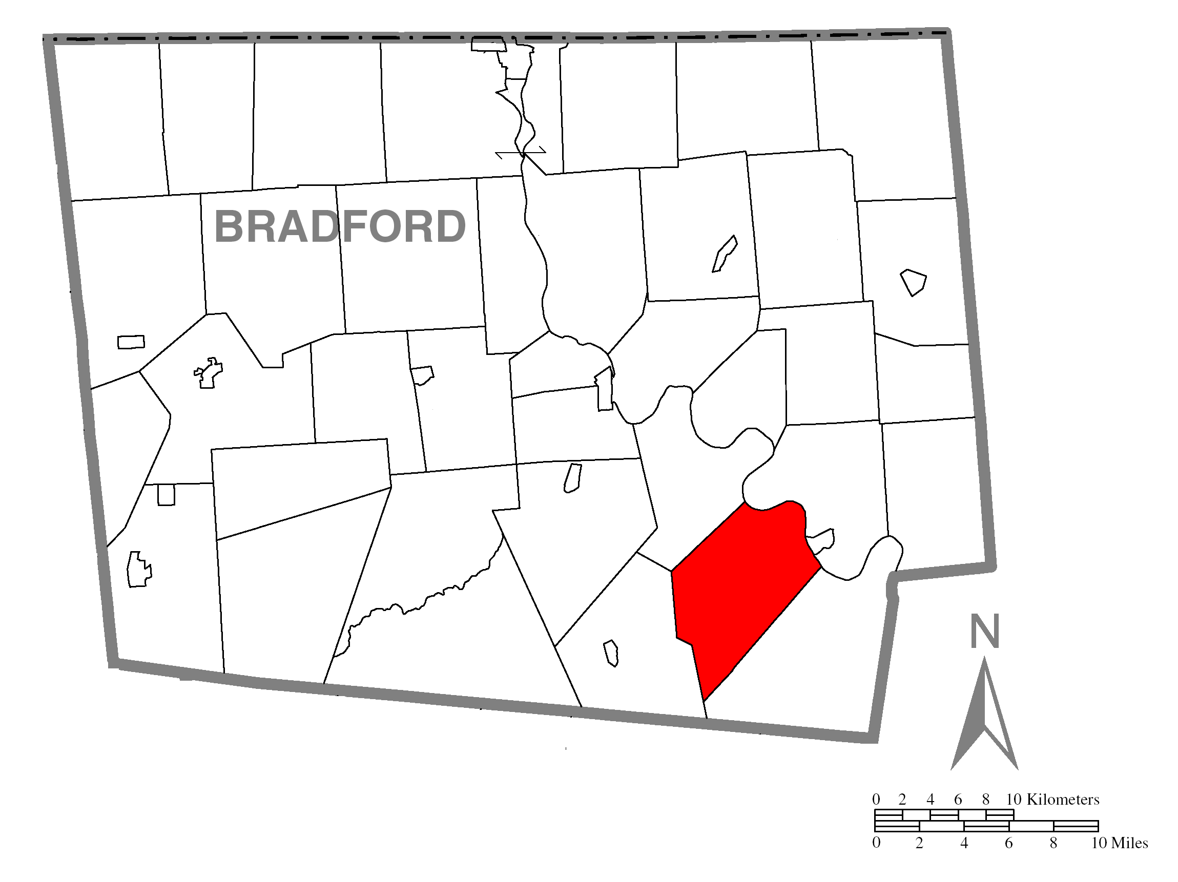 A map of Bradford County showing Terry Township, Pennsylvania (alternate) highlighted on the map.